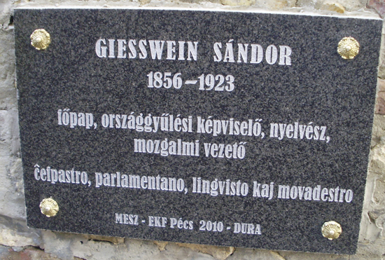 Plaque of Sándor Giesswein Pécs, Hungary